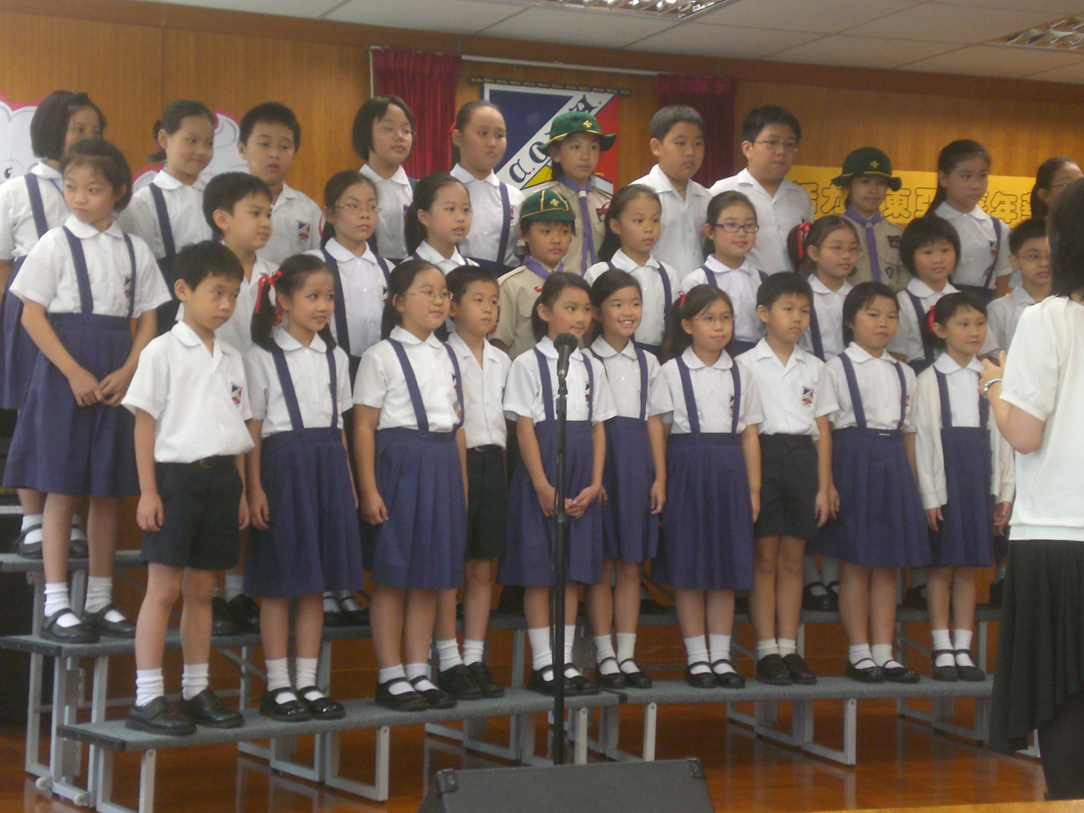 上環英皇書院同學會小學 第2分校zh:開放日 香港zh:學生 校服 童裝 兒童